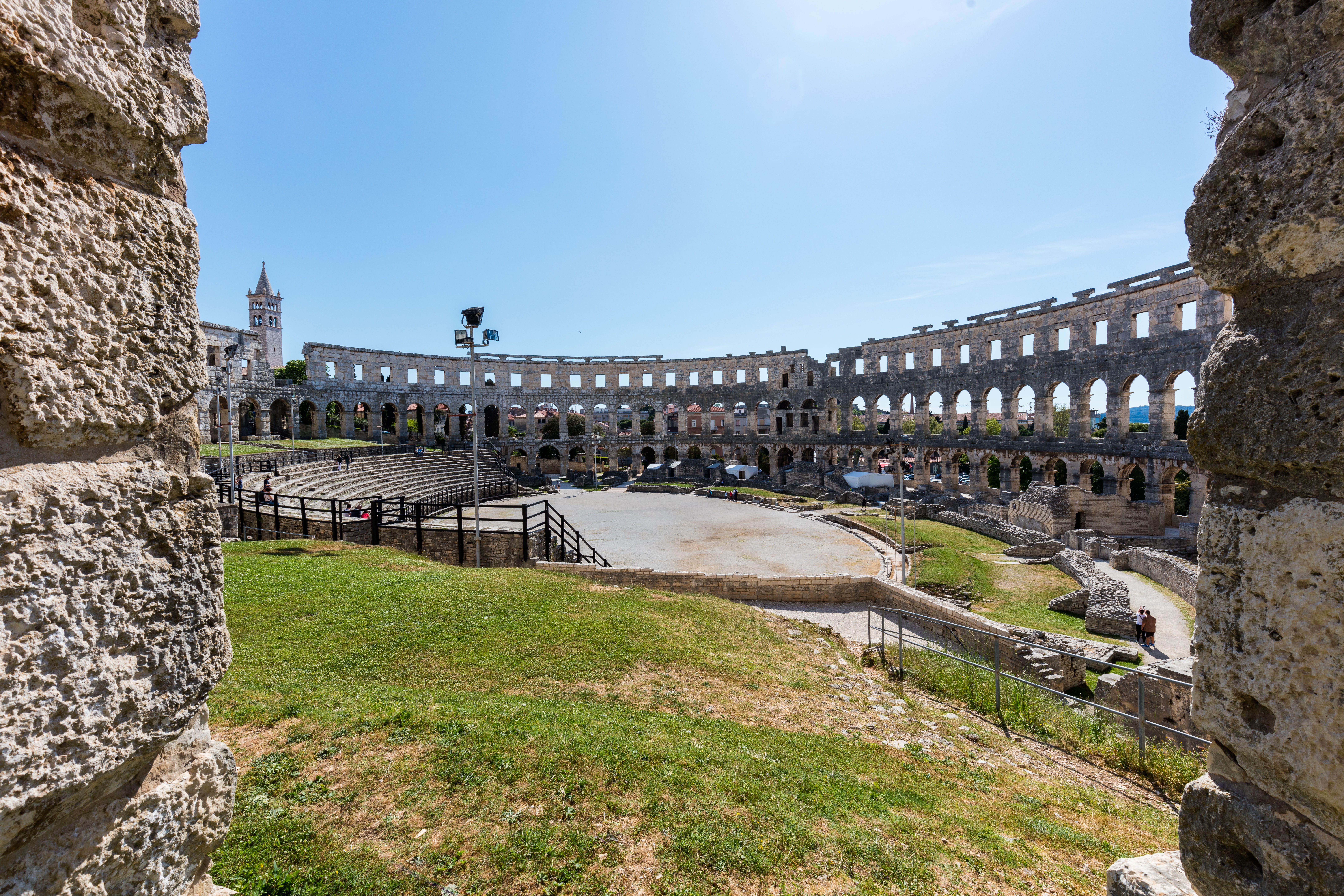 Pula amphitheatre, Croatia. This is a a photo of a cultural heritage in Croatia with ID: Z-863